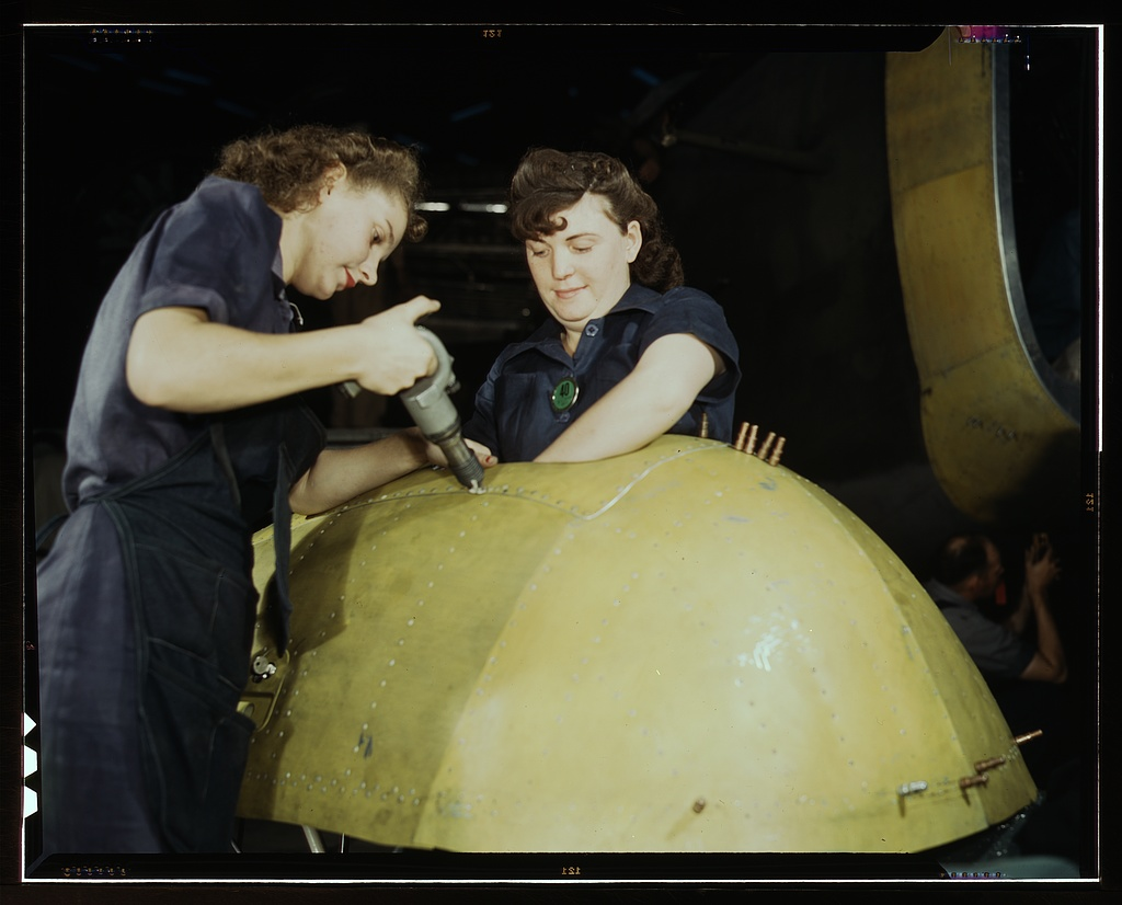 Title: Working on a "Vengeance" dive bomber, Vultee [Aircraft Inc.], Nashville, Tennessee Creator(s): Palmer, Alfred T., photographer